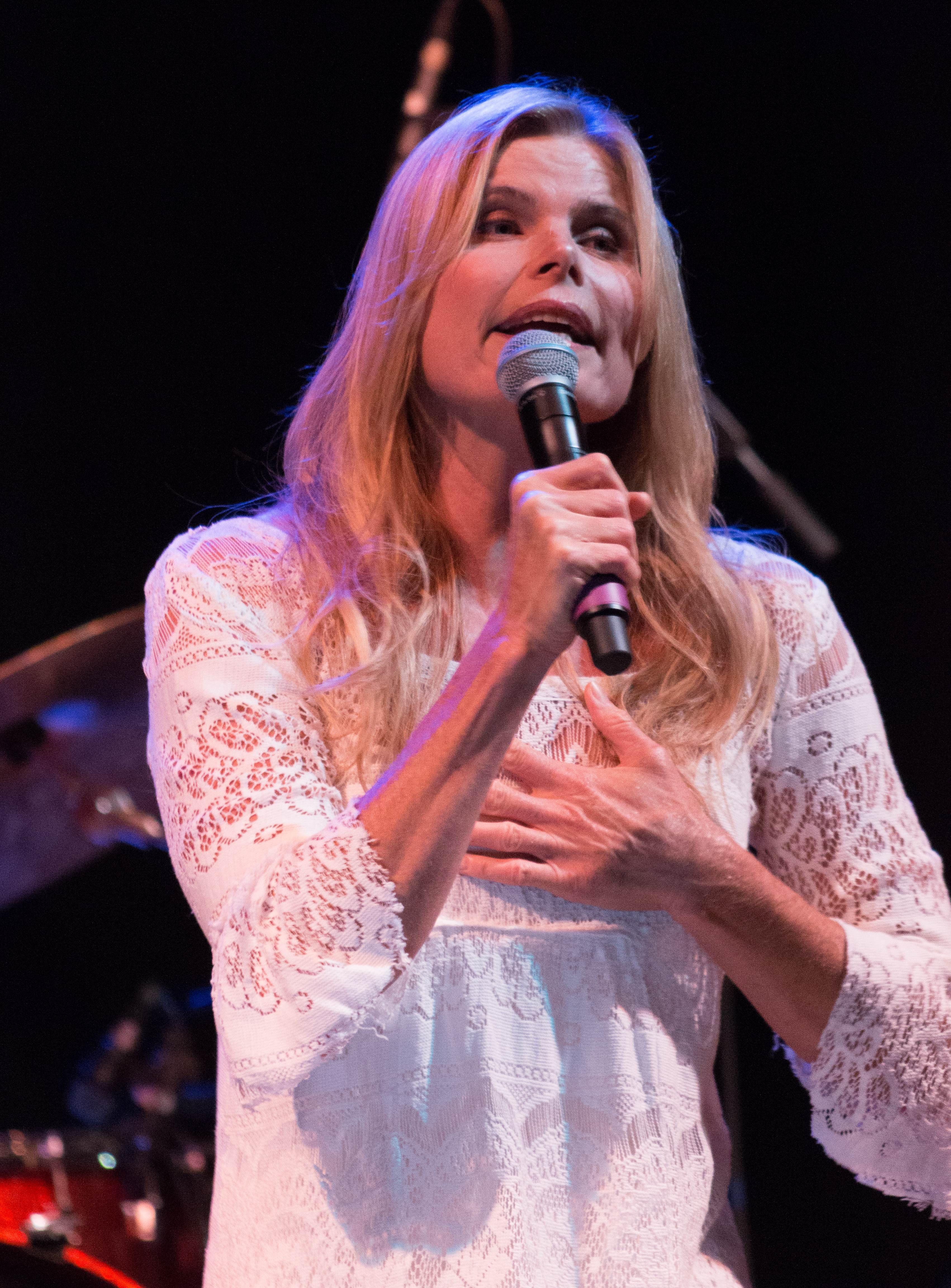 Mariel Hemingway speaking at the 2014 Hamilton Festival of Friends at the Ancaster Fairground